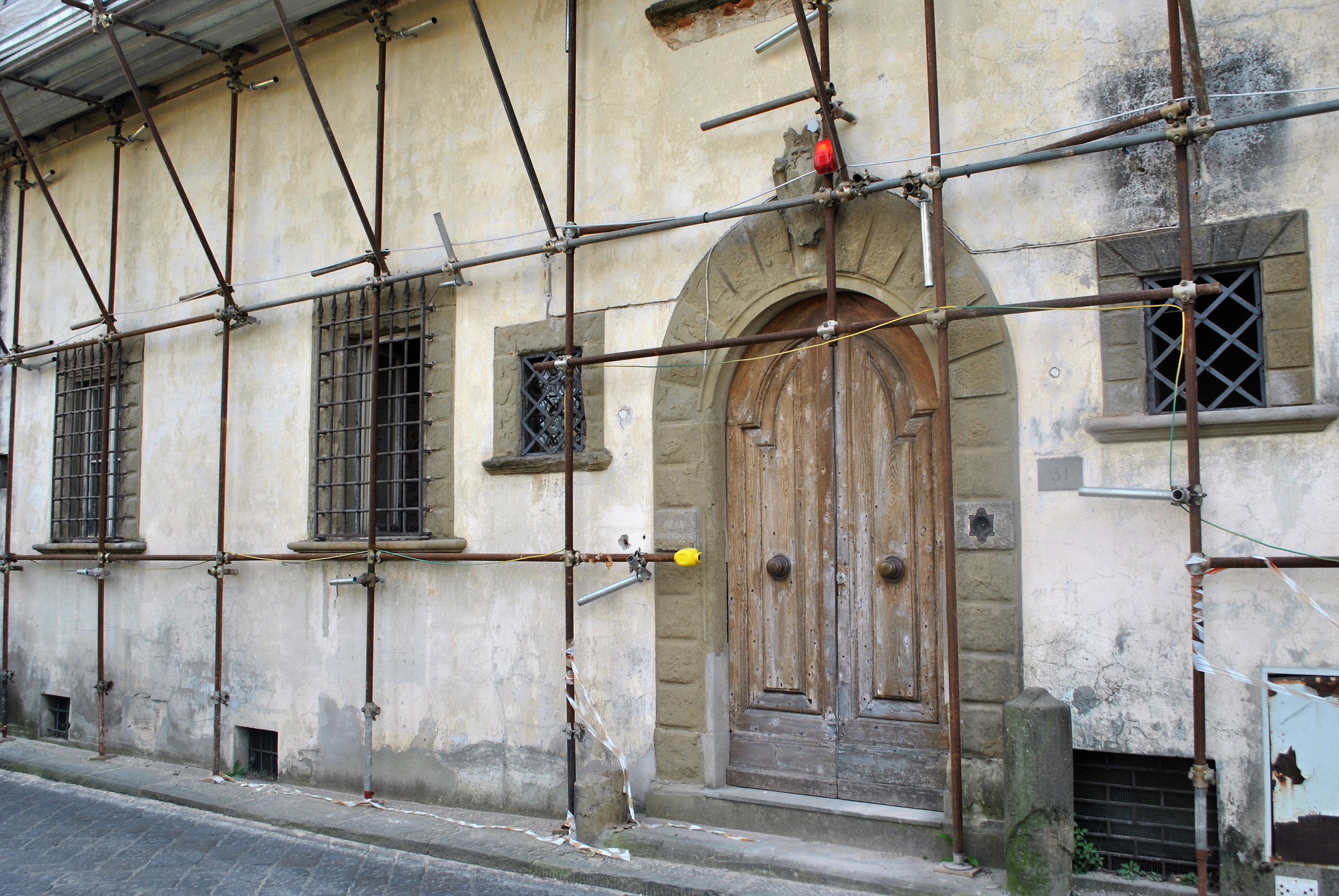 Image originally published in Queer Places: Retracing the Steps of LGBTQ people around the World Authored by Elisa Rolle